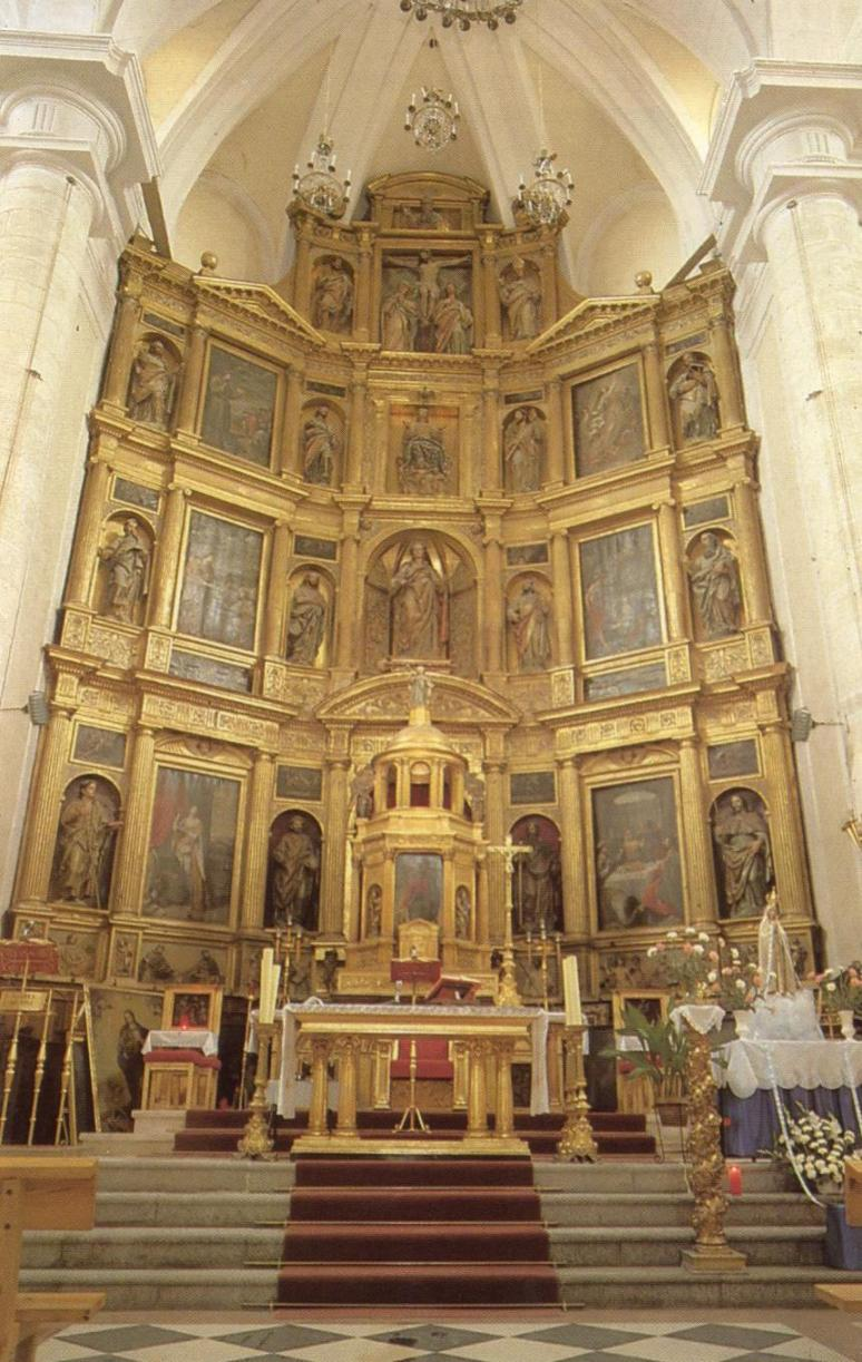 baroque altarpiece of the Cathedral of Getafe, Getafe, (Madrid), Spain Author: Miguel303xm Date: November 7th, 2005 Place: baroque altarpiece of the Cathedral of Getafe, Getafe, Madrid, Spain